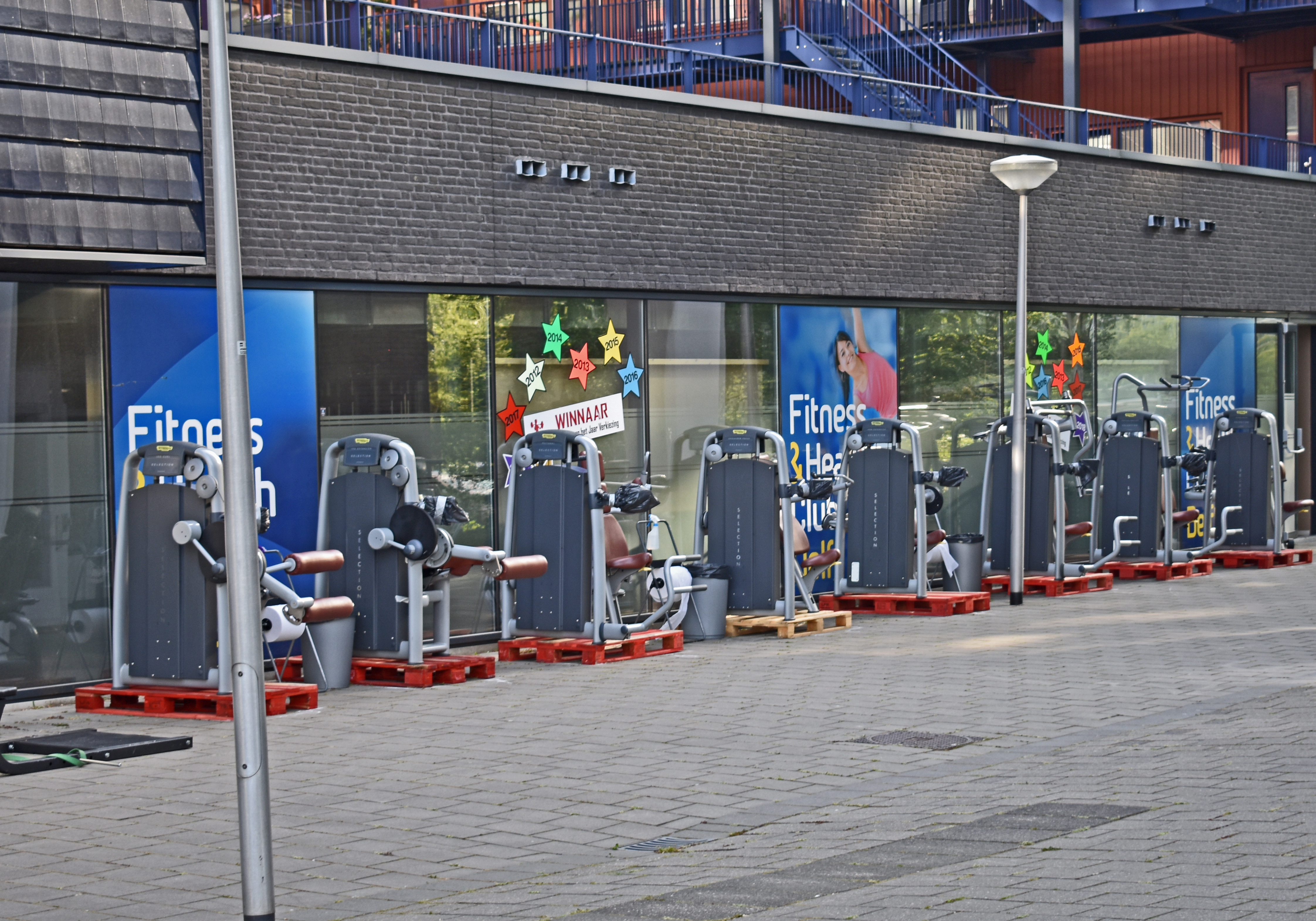 Exercise machines of a gym in Delft (Fitness & Health Club Delft) have been taken outdoors so that can be used during the COVID-19 pandemic emergency measures, when the gym itself has been closed